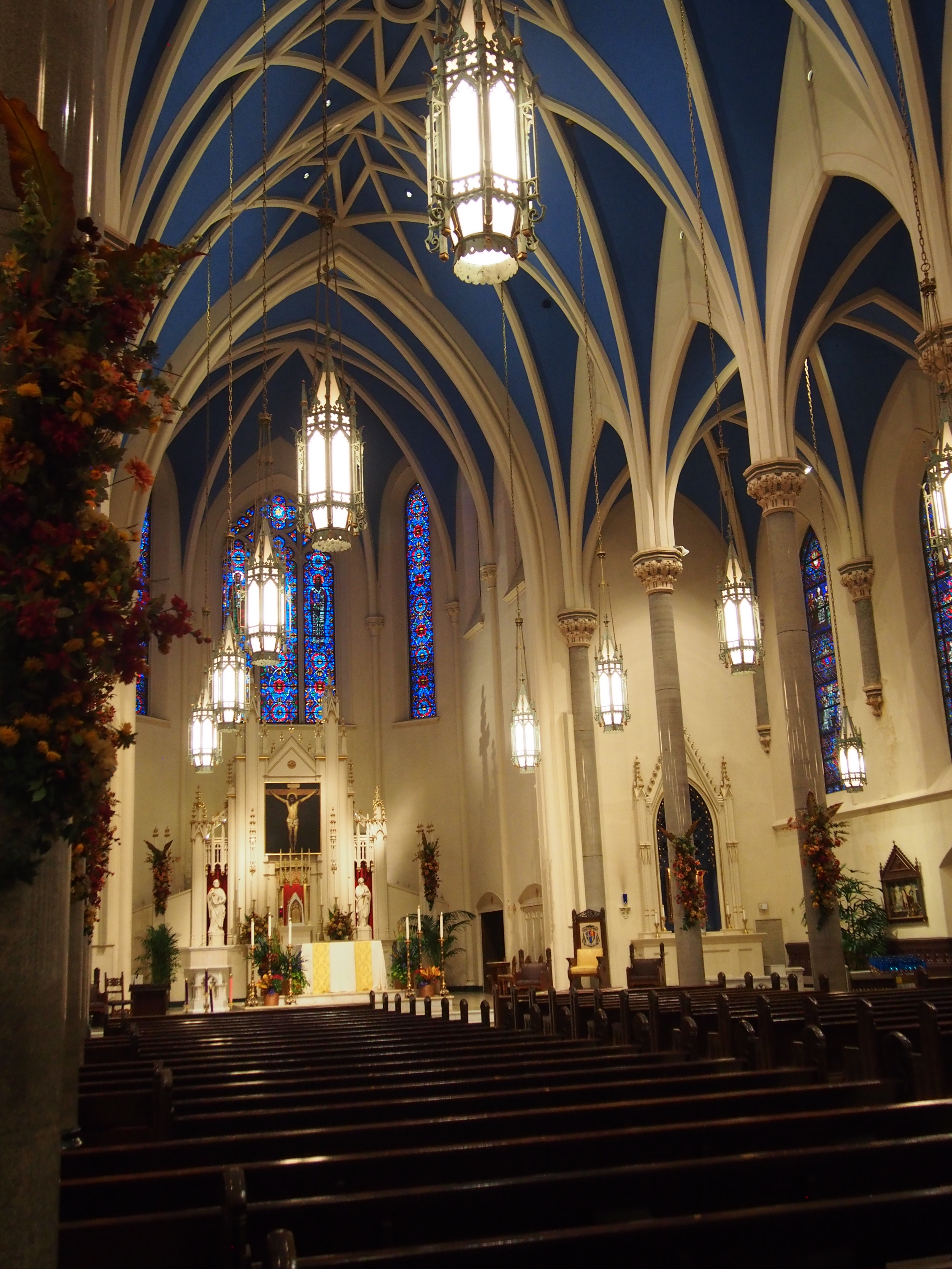 Cathedral of Saint Mary of the Immaculate Conception (Peoria, Illinois) - nave, view from the corner 2